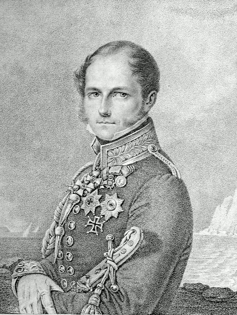 Leopold I of Belgium